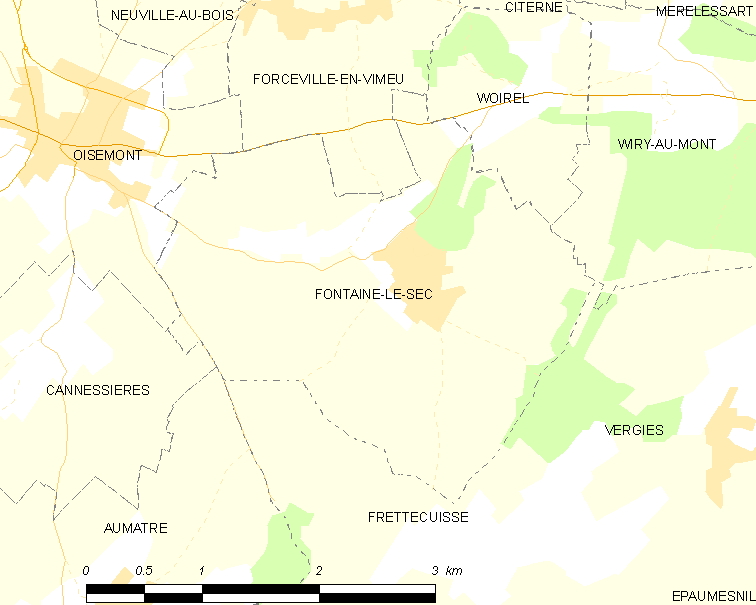 Map of French municipality Fontaine-le-Sec